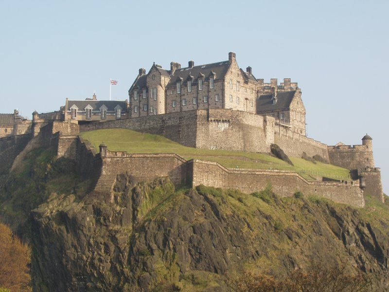 Taken from Princes St.Edinburgh Castle